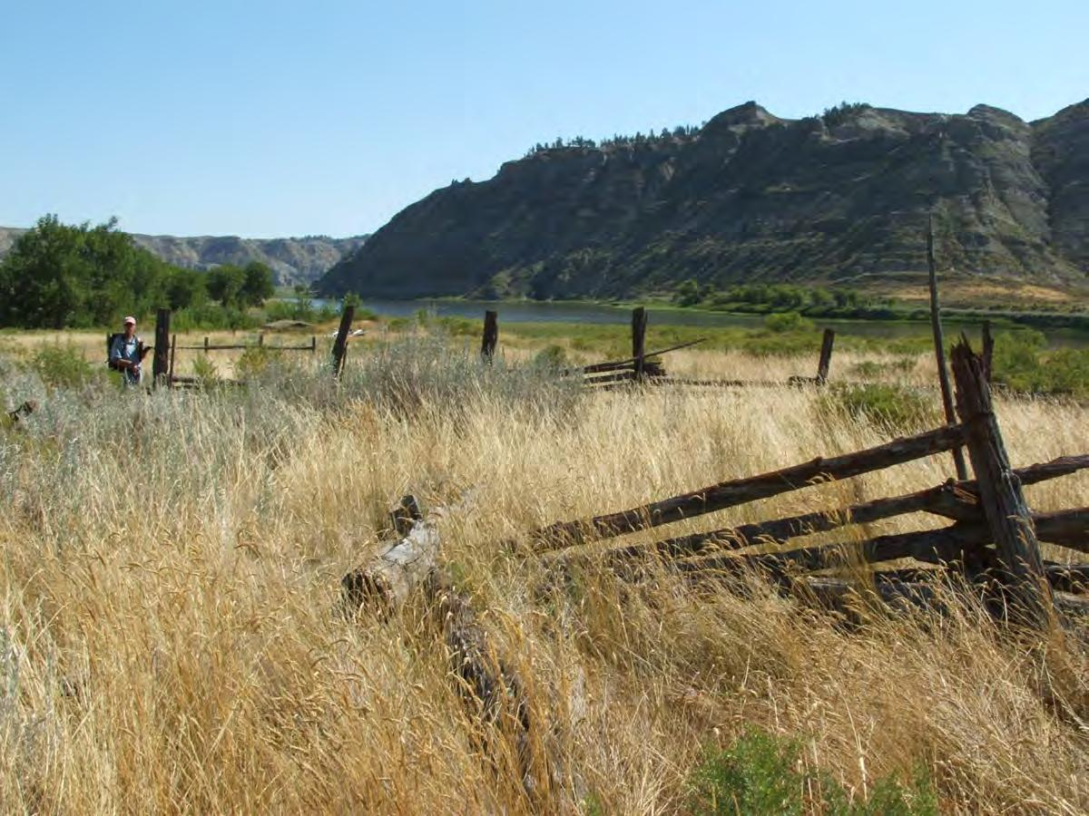 Corral at the former Ervin Homestead, part of the Ervin Homestead-Gist Bottom Historic District in the Missouri Breaks of Blaine County, Montana.